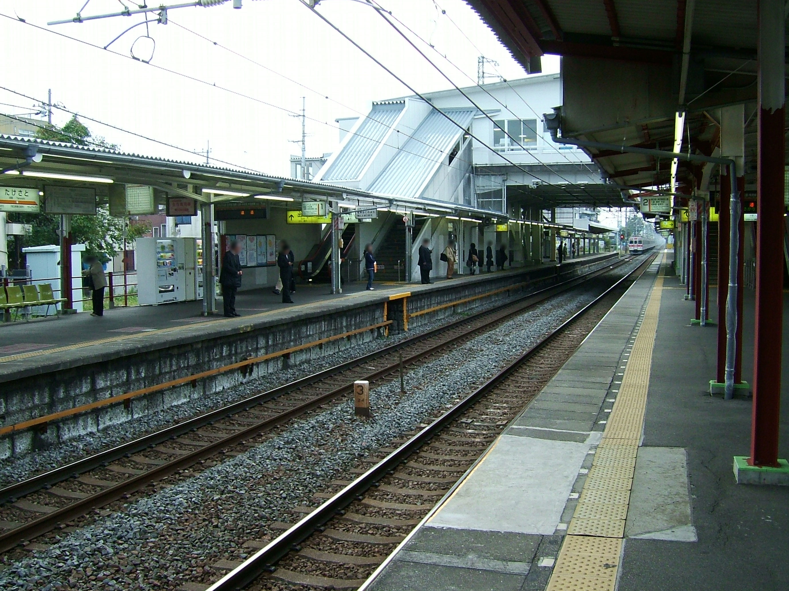 Takesato Station platform (Tōbu Railway Isesaki Line)